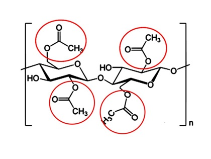 Cellulose triacetate, (triacetate, CTA or TAC) is a chemical compound produced from cellulose and a source of acetate esters, typically acetic anhydride.